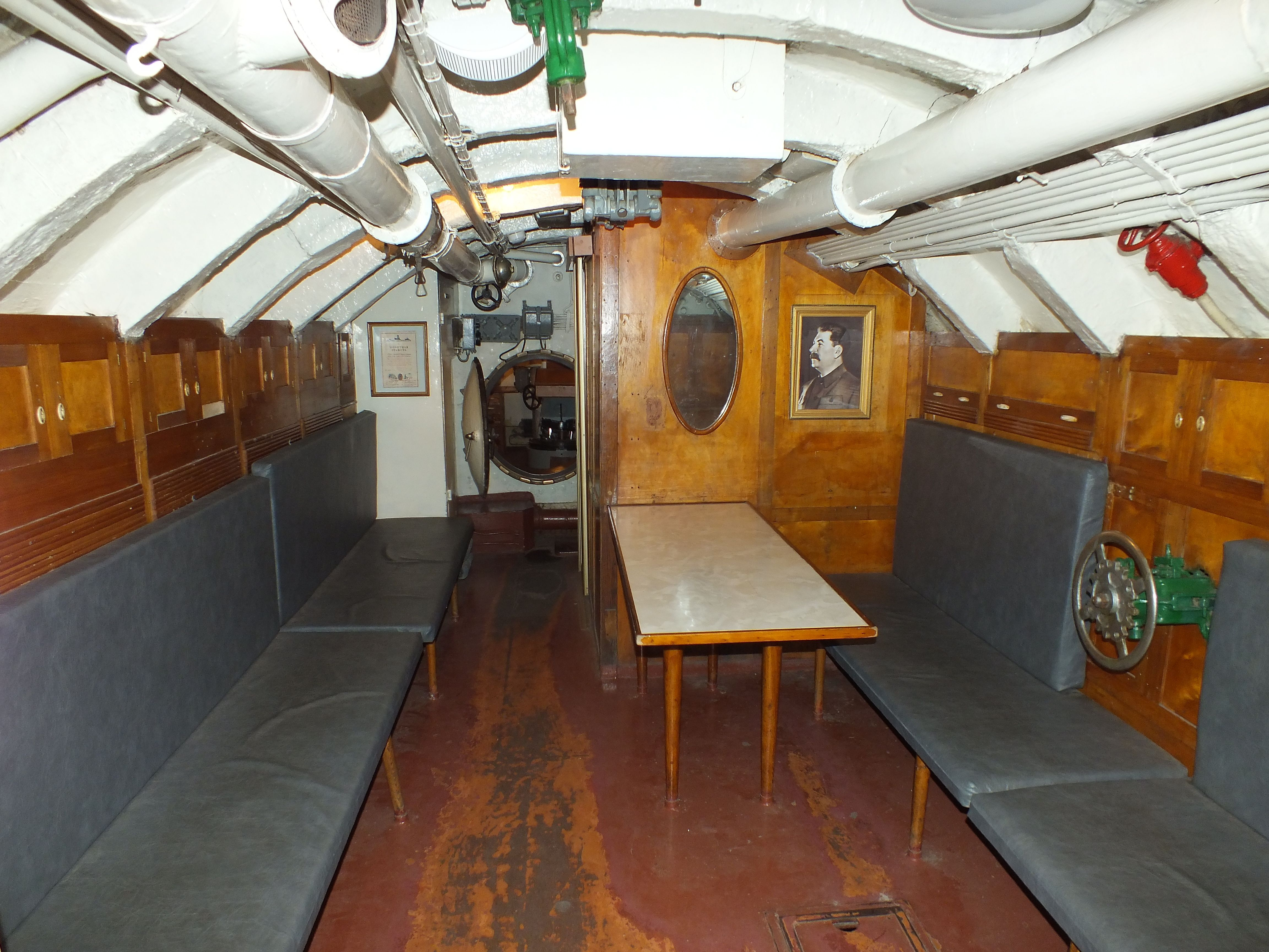 S-56 Submarine Monument (Vladivostok)